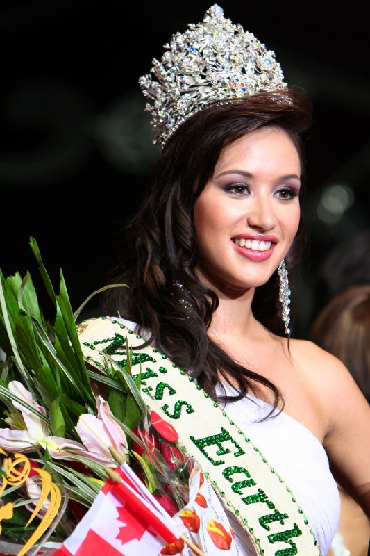 Jessica Trisko of Canada, has been crowned Miss Earth 2007. Raised in Vancouver, is half-Filipino & part Russian and Ukrainian.